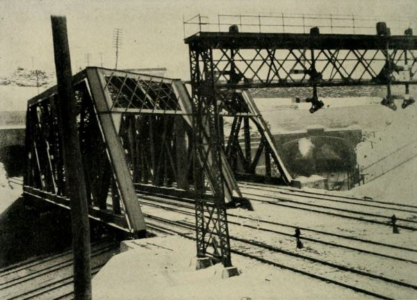 "The busiest tunnel point in the world—at the west portals of the Bergen tunnels, six Erie tracks below, four Lackawanna above." Jersey City, New Jersey.